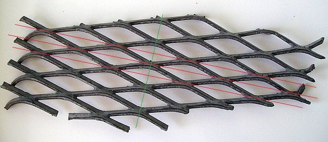 Iron curtain Germany (near Witzenhausen-Heiligenstadt) (detail)